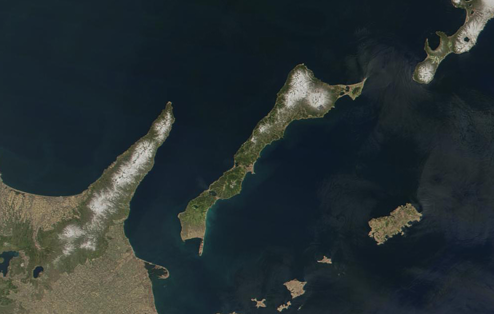 Kunashir Island